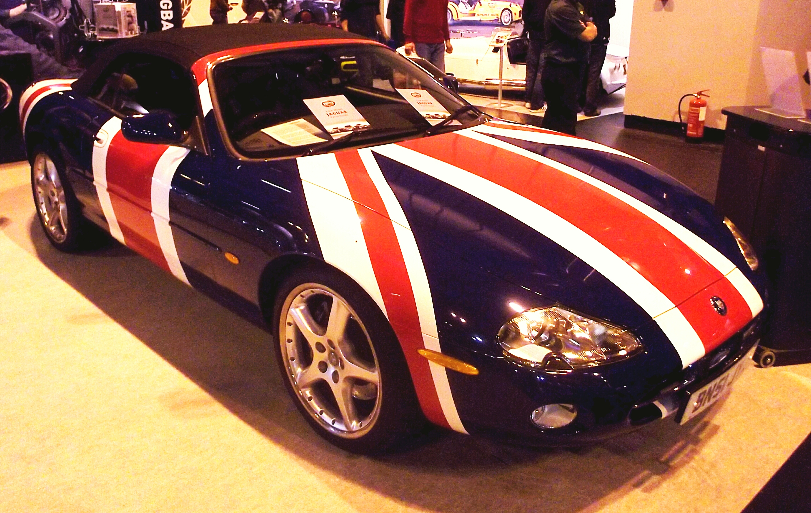 Taken at the Birmingham NEC Classic Car Show Yes it is the real SHAGUAR from the film Austin Powers Goldmember